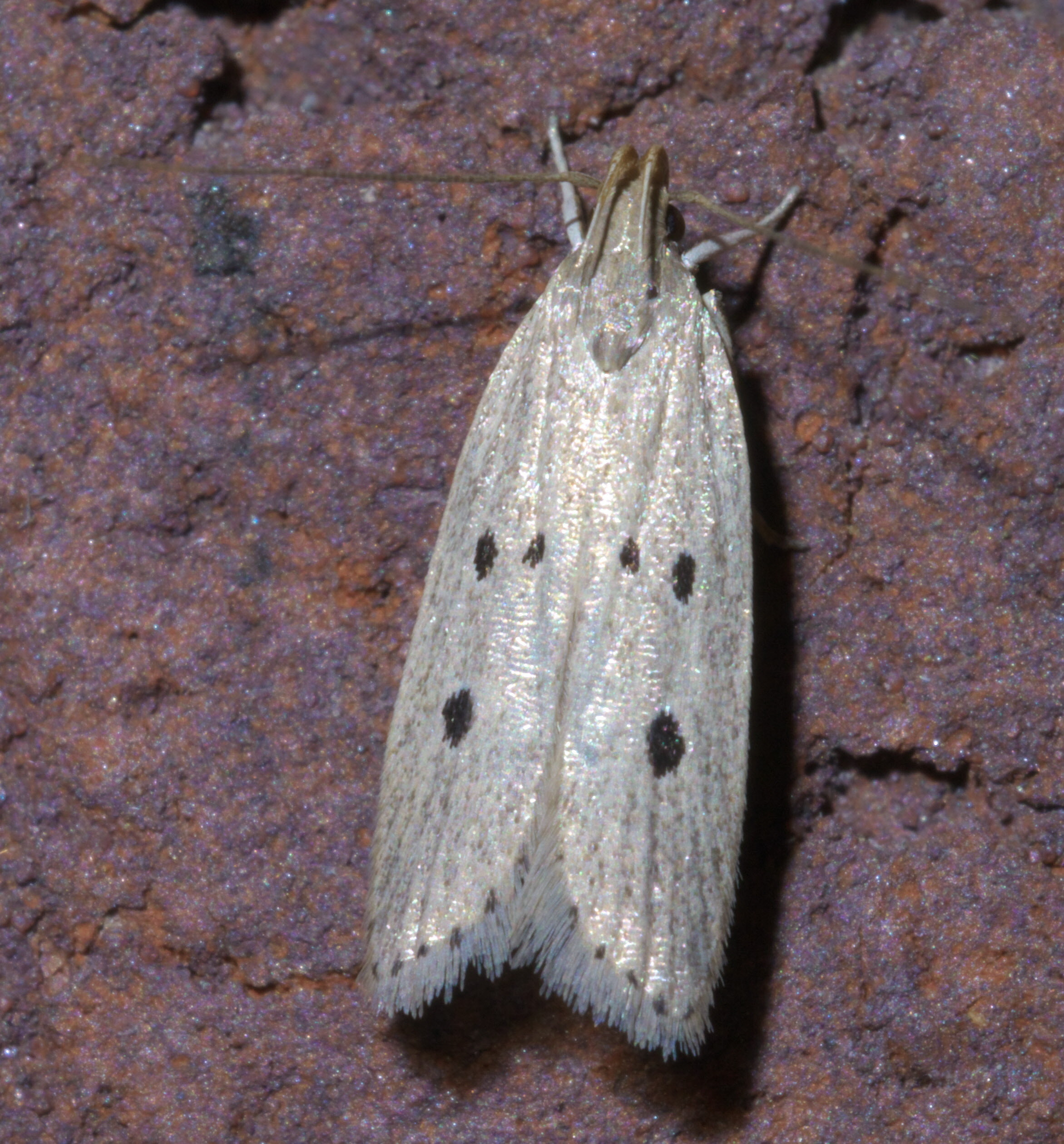 Helcystogramma melanocarpa, Hodges #2269, ID Confidence: 93